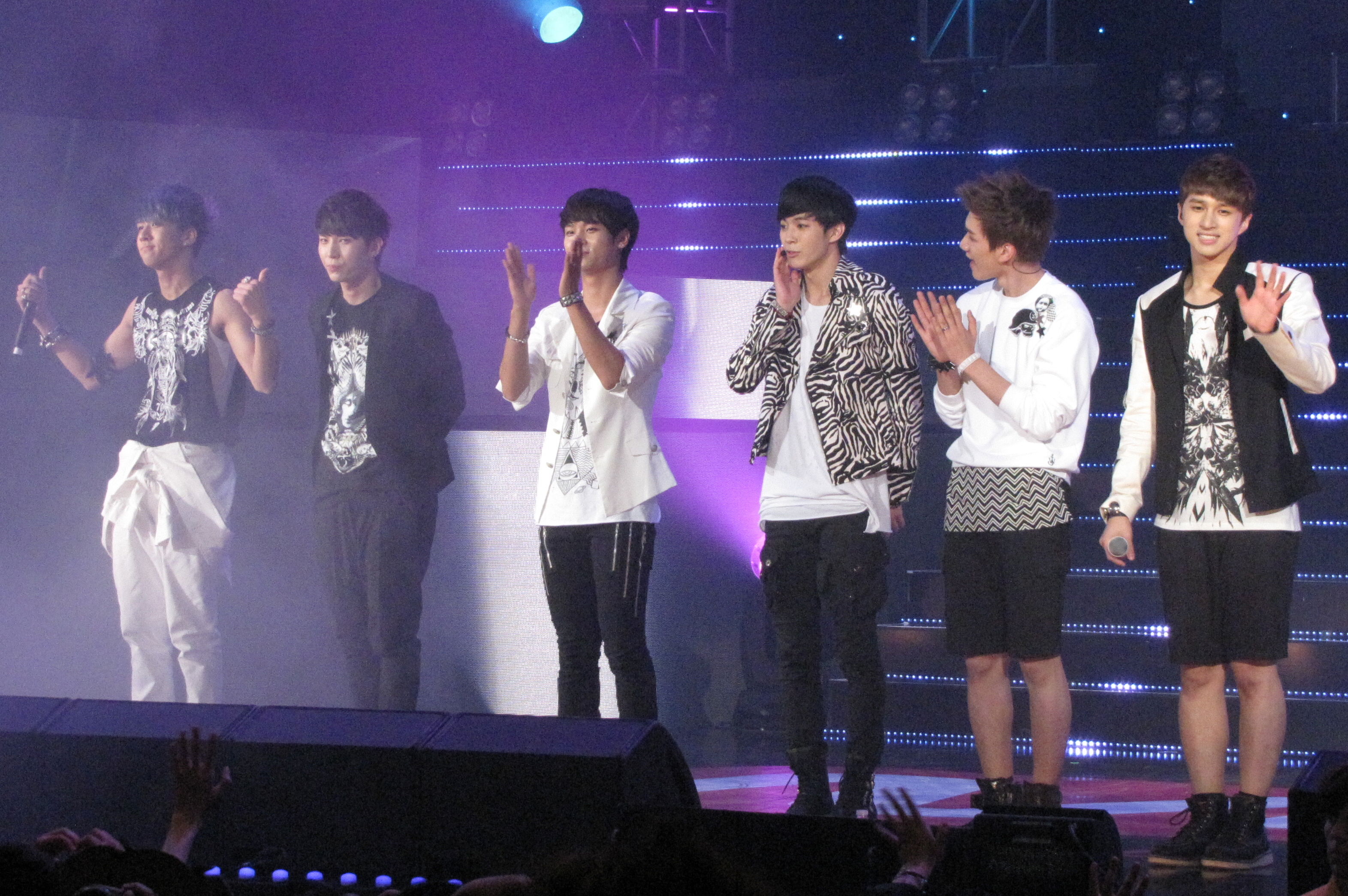 VIXX at KCON 2012